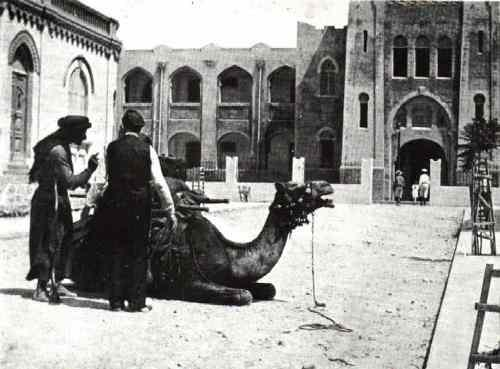 A "camel taxi" near the Herzliya Hebrew Gymnasium, Tel Aviv